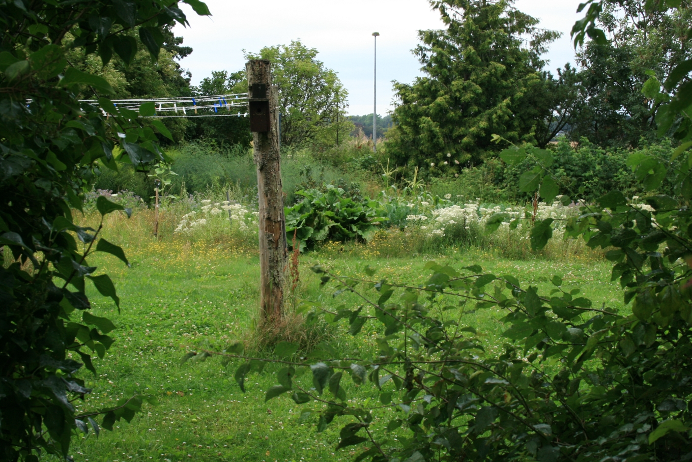 The village society of "Dyssekilde" at Torup, northern Sealand, Denmark